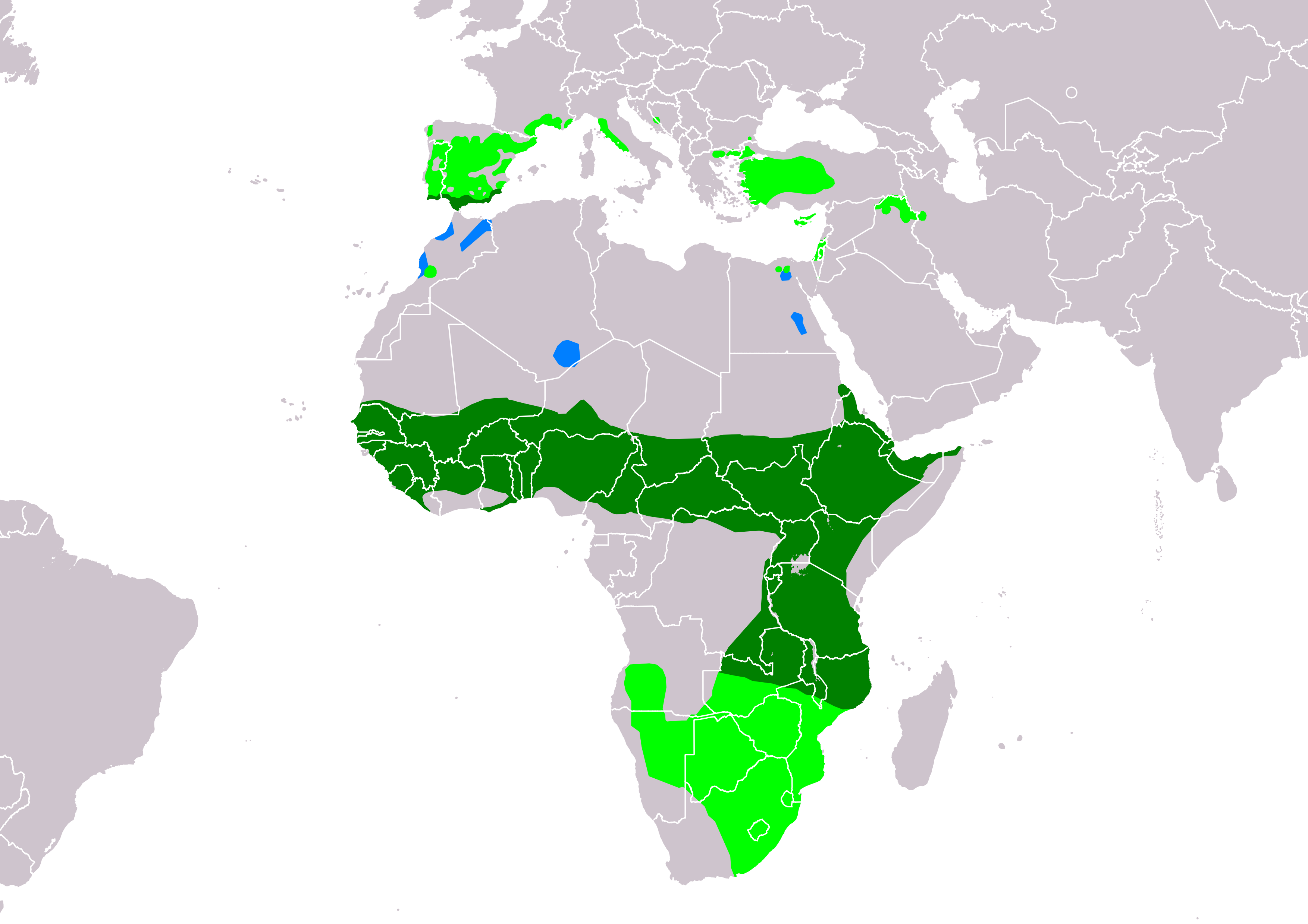 Distribution map of great spotted cuckoo (Clamator glandarius) according to IUCN version 2018.2 , Legend: Extant, breeding (#00FF00), Extant, resident (#008000), Extant, non-breeding (#007FFF)